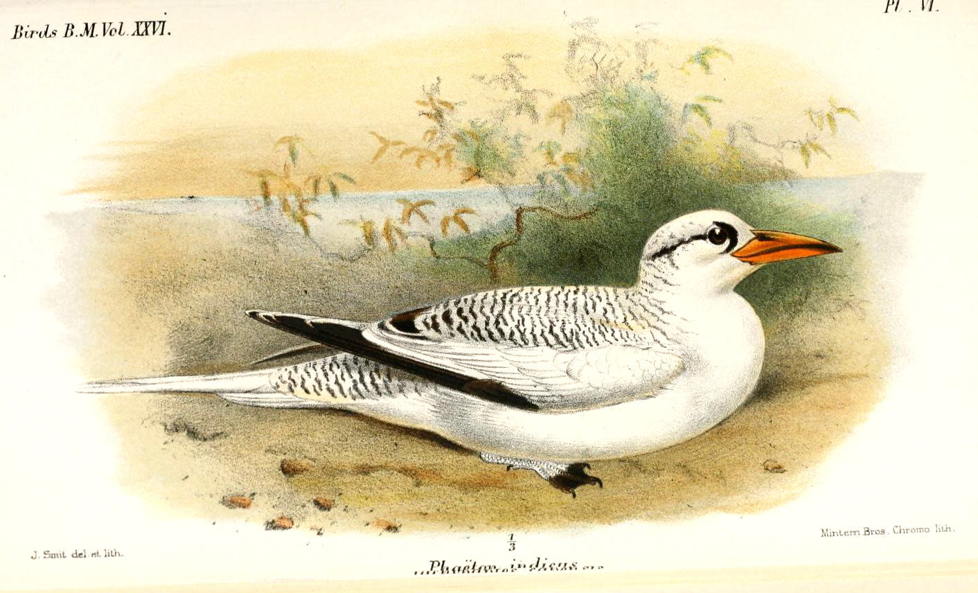 Phaethon indicus = Phaethon aethereus indicus, Indian Ocean subspecies of the Red-billed Tropicbird